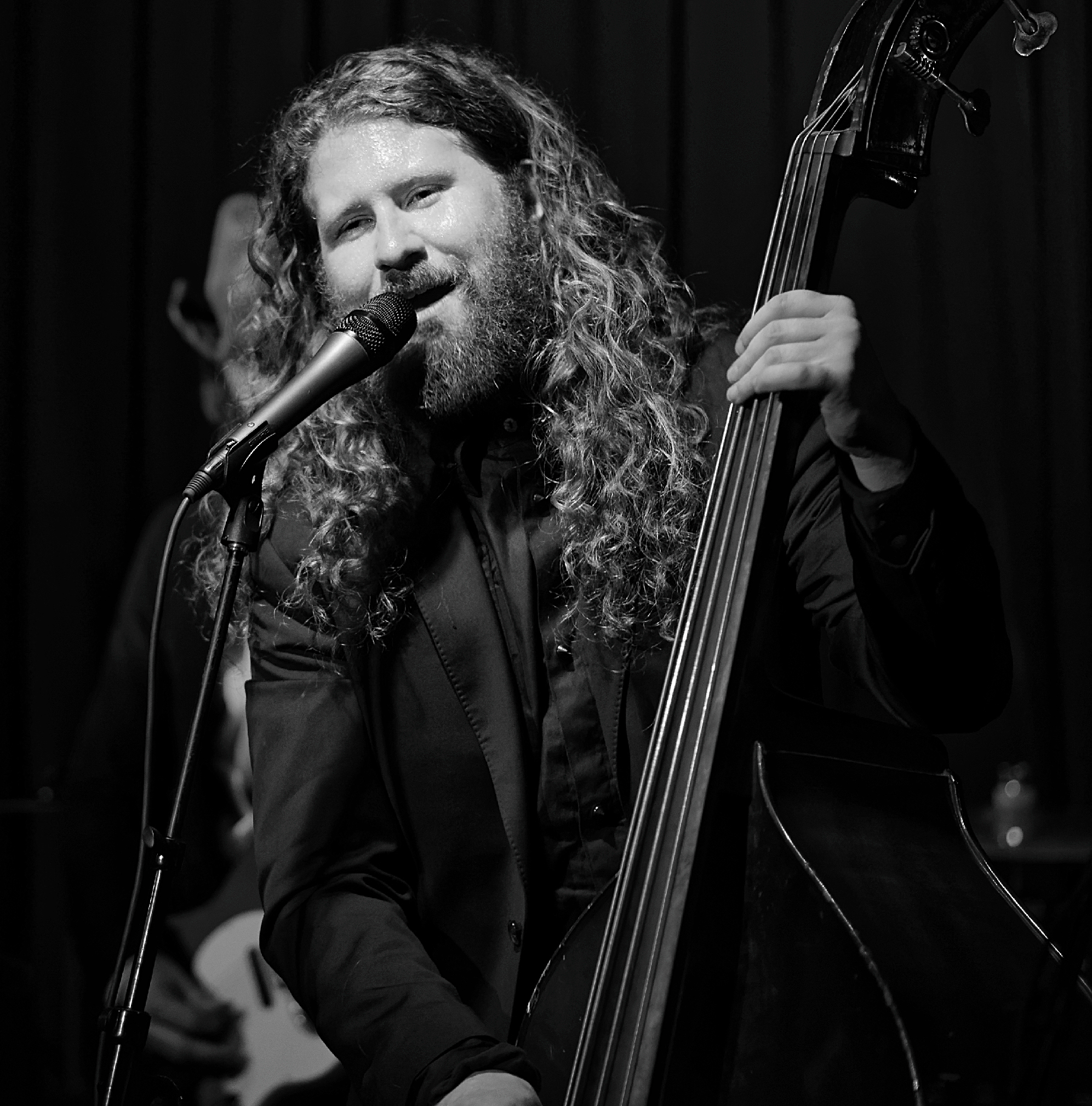 Casey Abrams at the Hotel Cafe